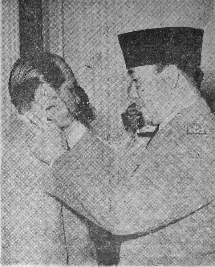 Sukarno inaugurating Major General T.B. Simatupang